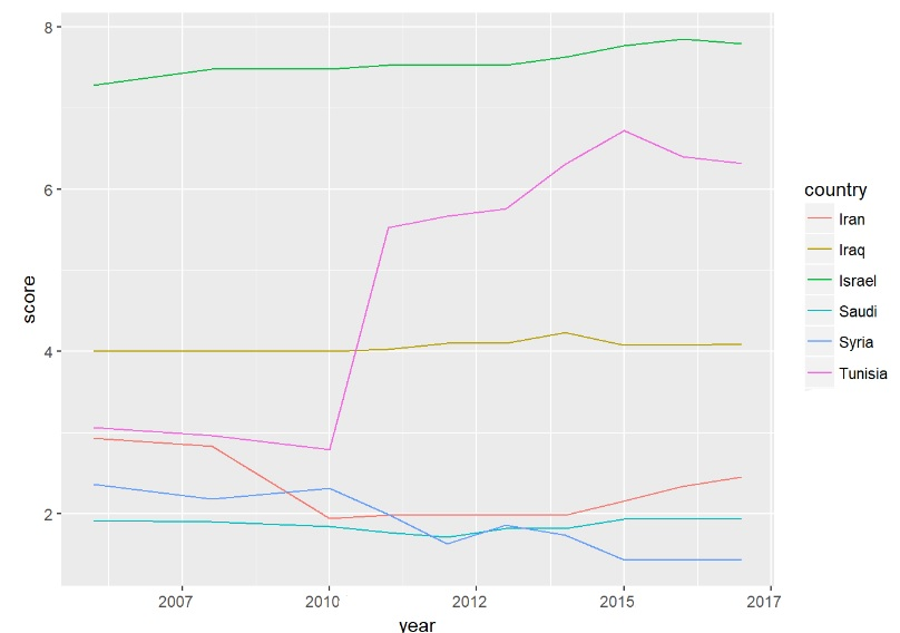 How democracy index has changed in middel-east from 2006 till 2017